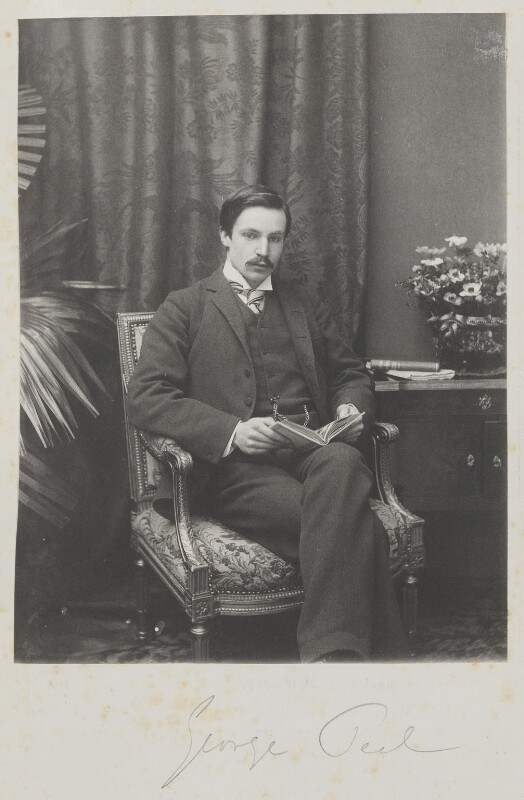 Portrait of George Peel (1869–1956), British politician and writer.